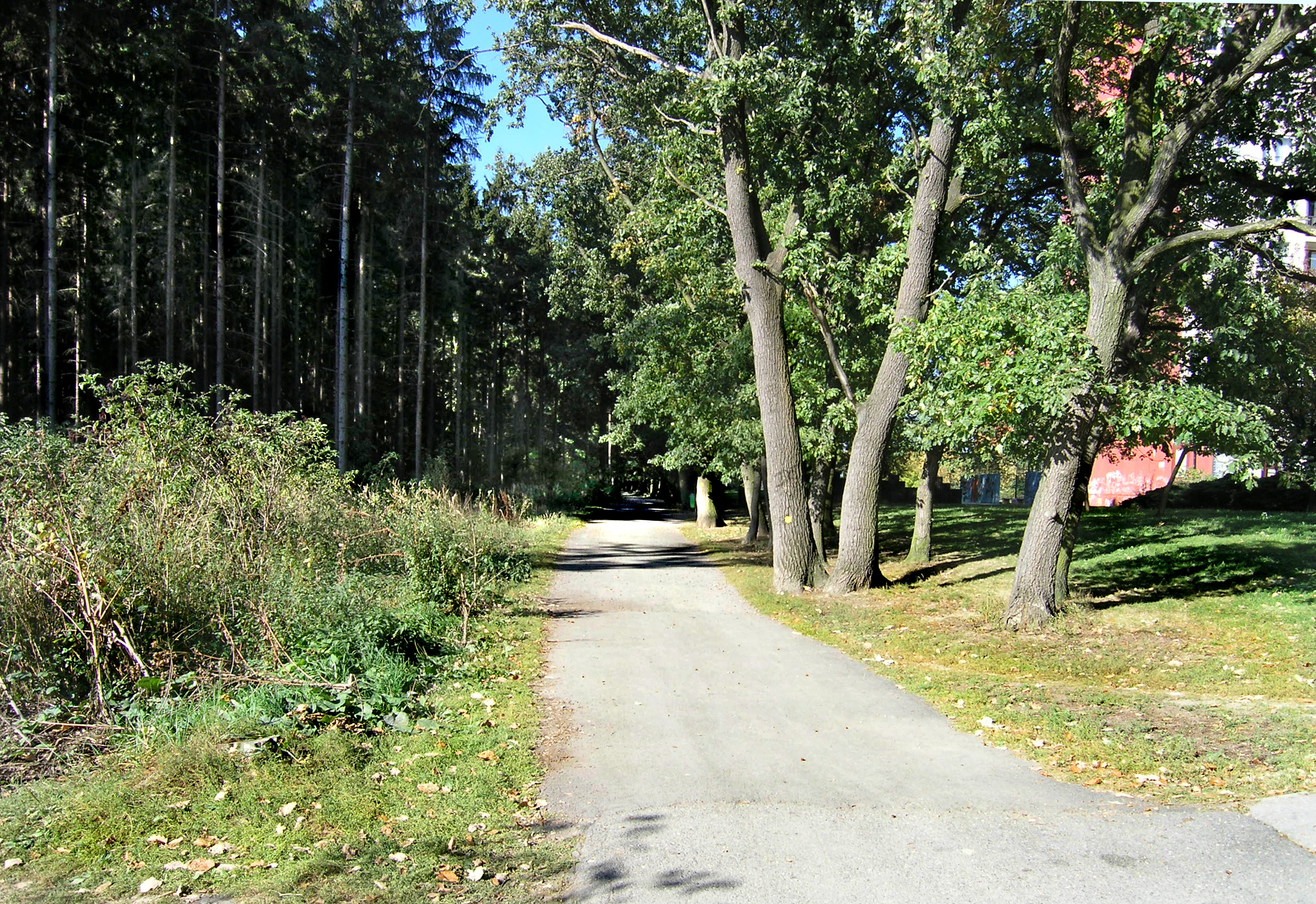 East part of Kunratický forest, Prague